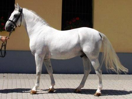 Lipizzaner stallion in Slowakian National Stud Topolcianky, classical typed